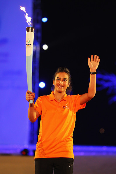 fatma-al-nabinha-0man-tennis-player